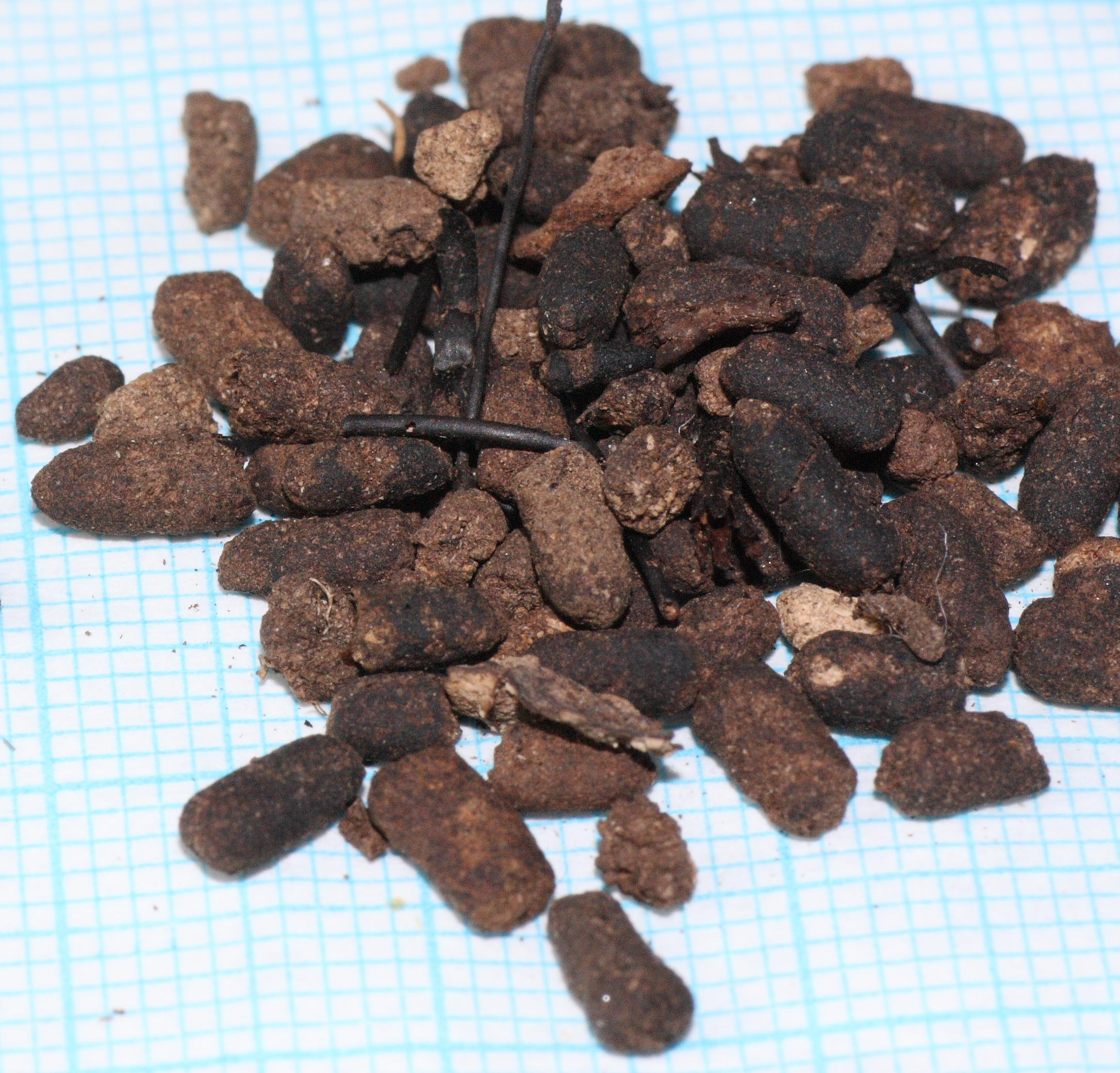 Feces from Osmoderma eremita, outside a hollow tree